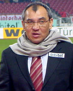 Felix Magath is a famous soccer trainer. Now, 2006 he is training the german soccer team Bayern Munich.